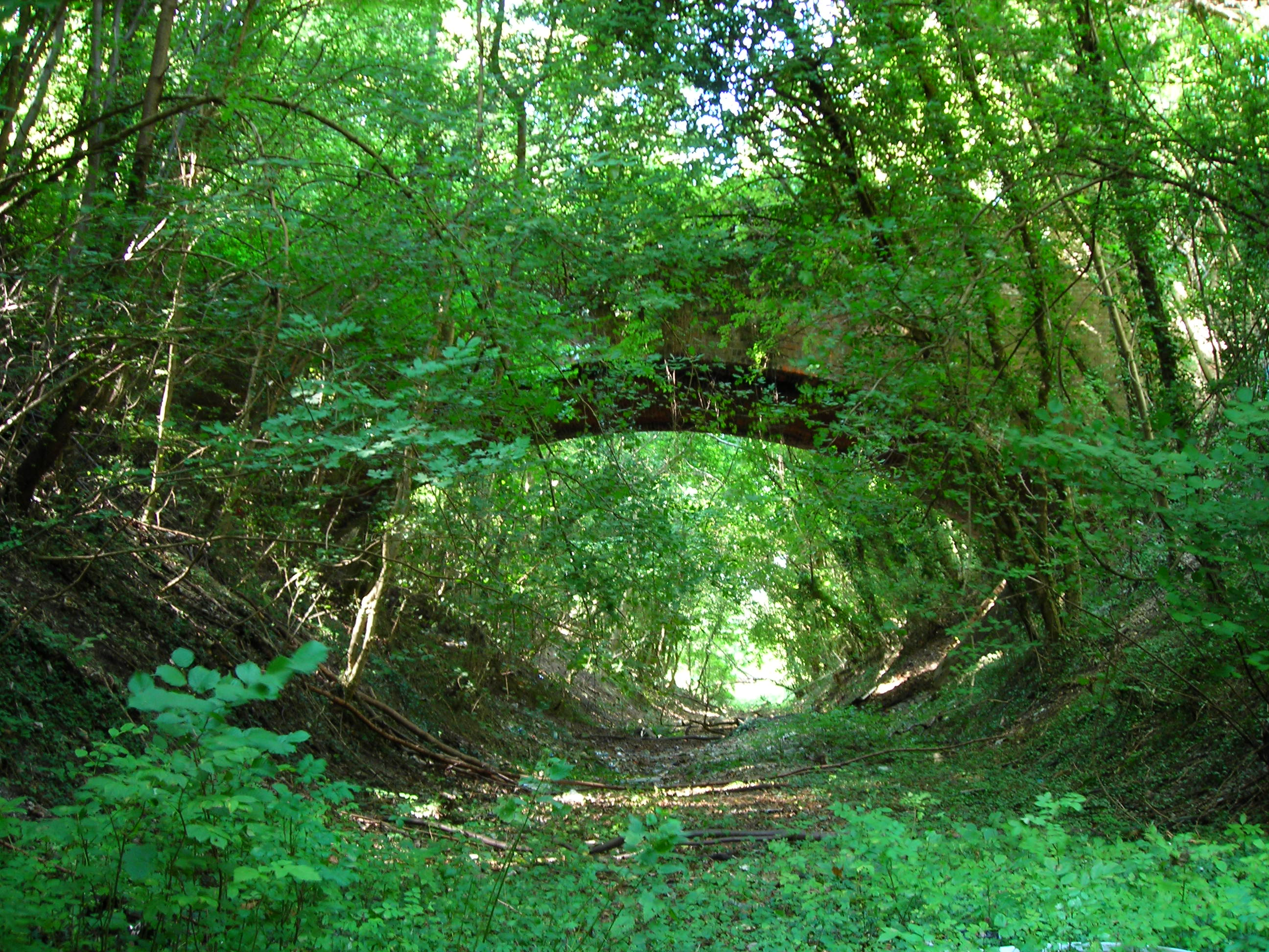 Abbey Barn Lane bridge over disused railway line; Maidenhead to Bourne End then to High Wycombe line.